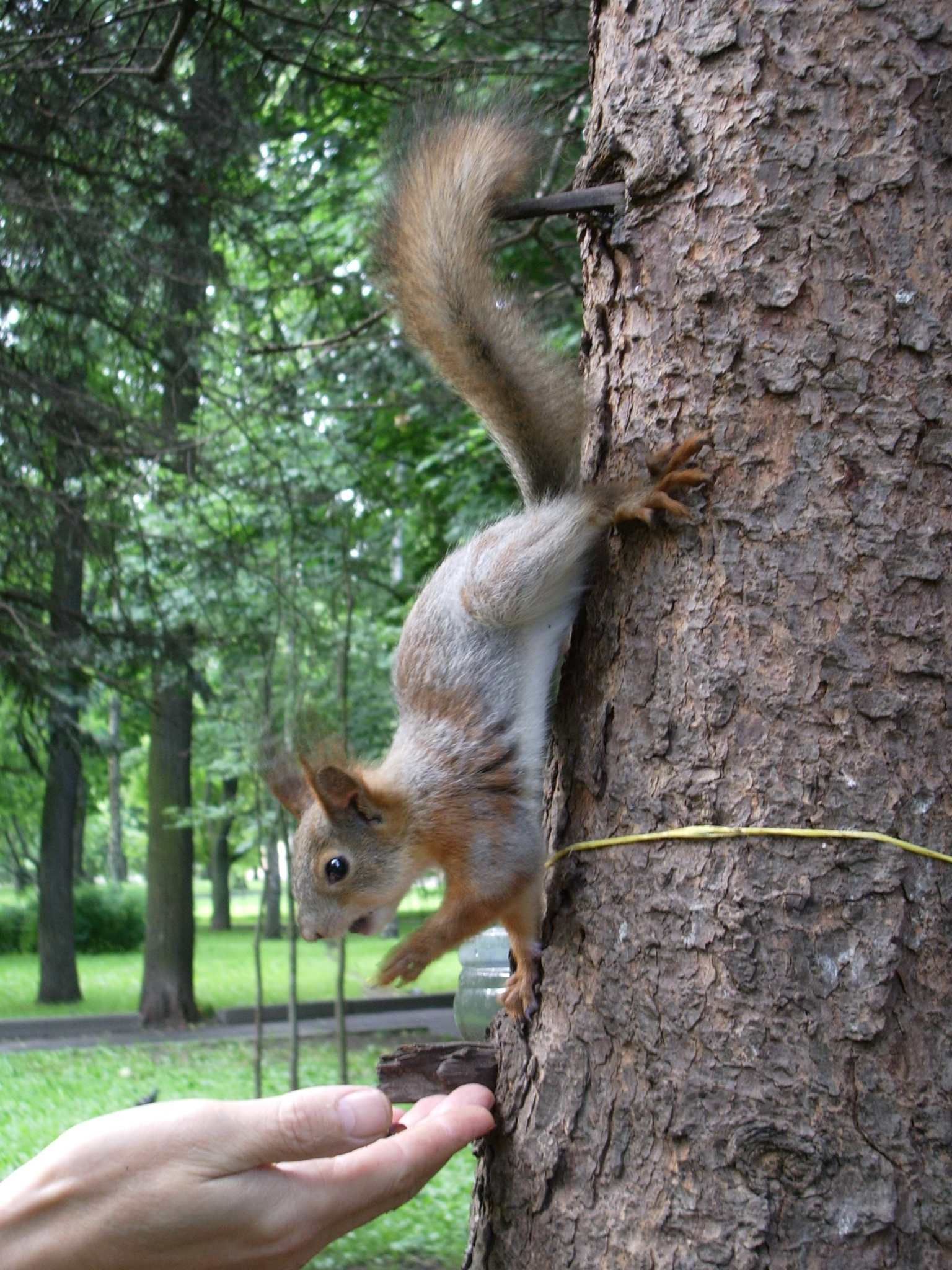 Squirrel in a Memorial park at Sokol. Moscow.